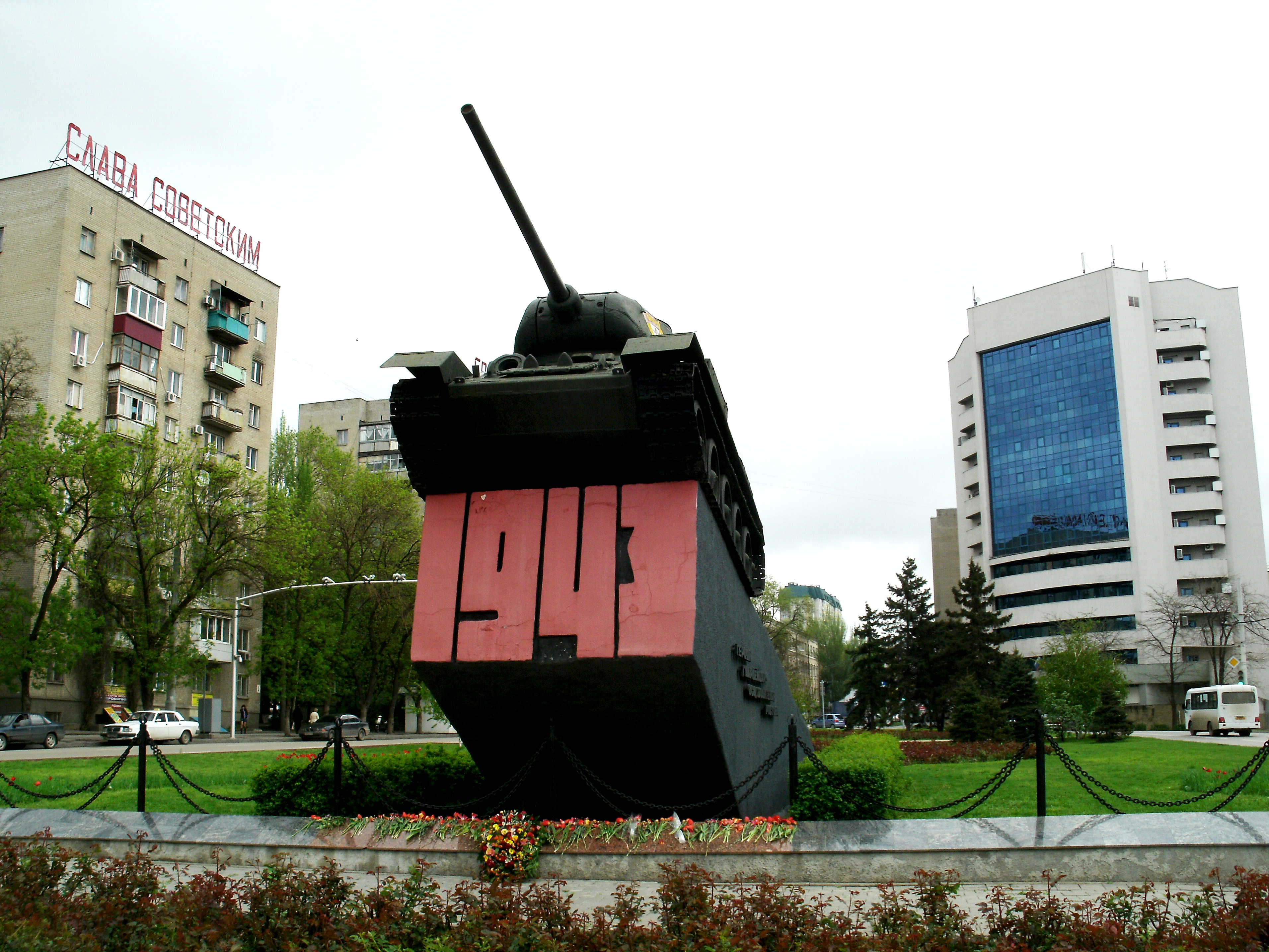 Rostov-on-Don, Monument of the Liberation of Rostov-on-Don from German occupation on February 14, 1943 (design by G. Grigoriev, unveiled in 1967). Own work (by JukoFF).